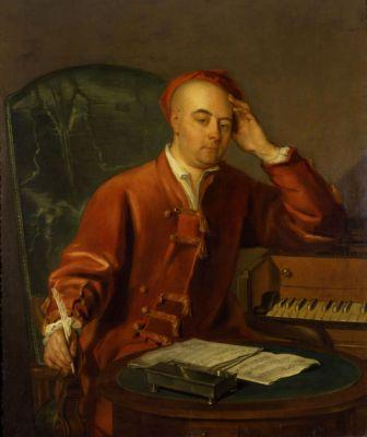 Portrait of George Frideric Handel composing next to a one manual harpsichord